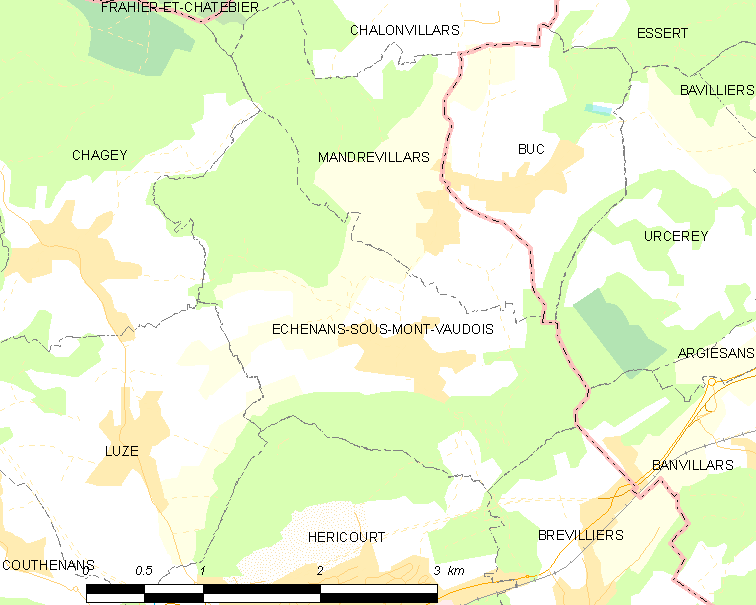 Map of French municipality